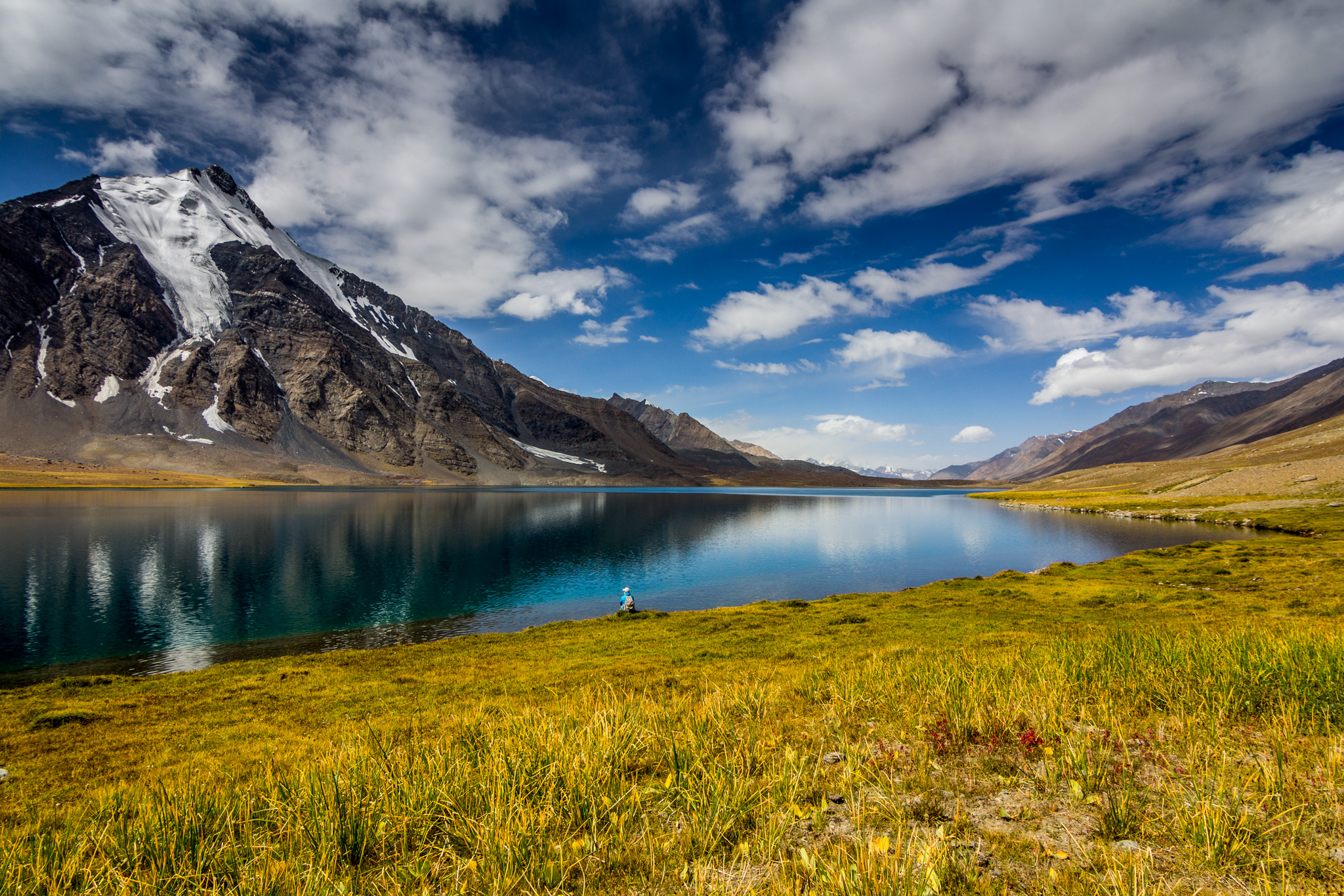 Karomber lake is a high altitude lake located at Karomber pass (connecting Ishkoman valley of Gilgit Baltistan with Broghil valley of Khyberpakhtunkhwa). I took this photo last year in end of August after reaching here from Hunza via Chillinji pass. You can find more of my work on my Instagram account at